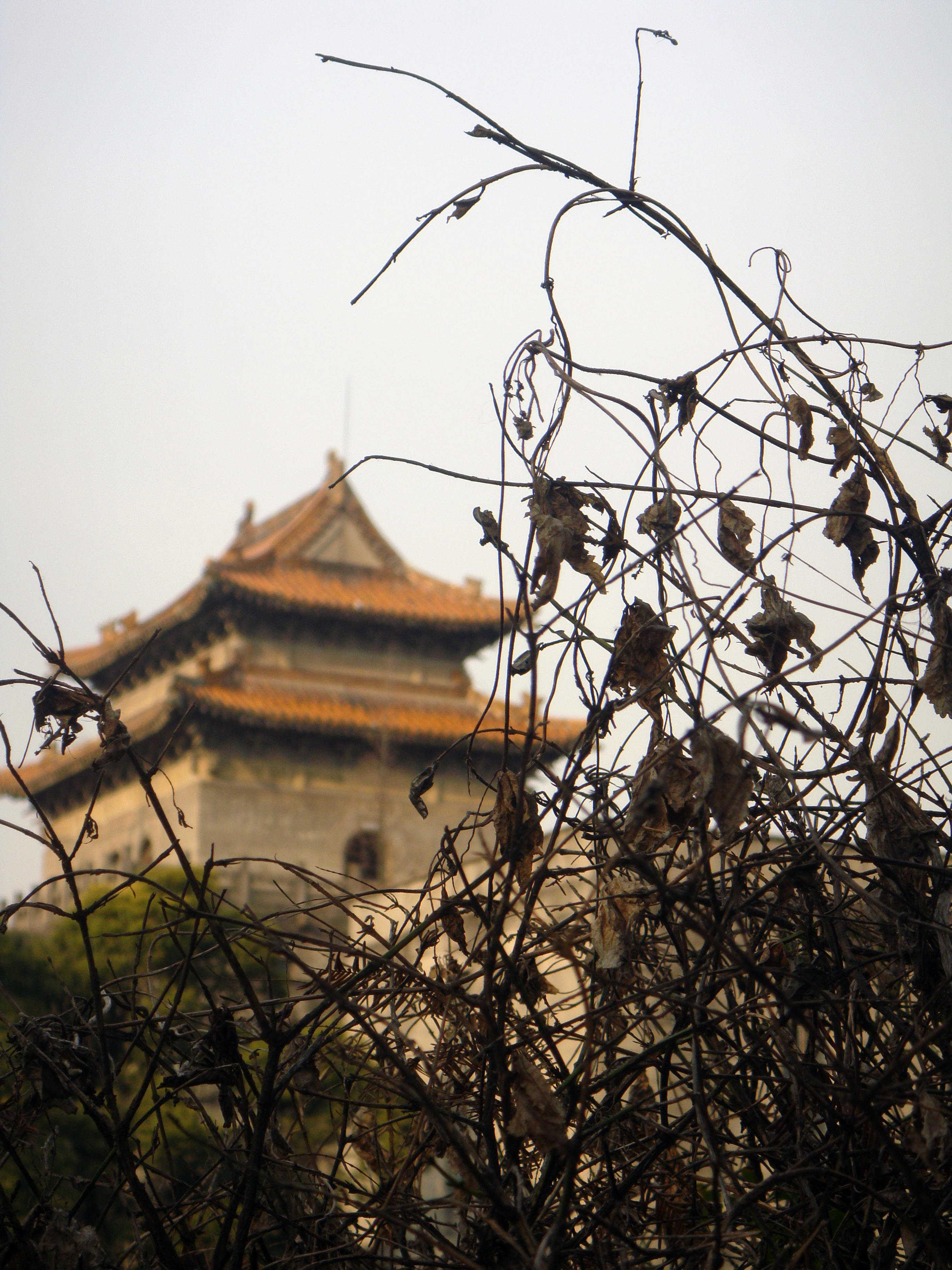 Shanghai Library (1936-1949) Tower